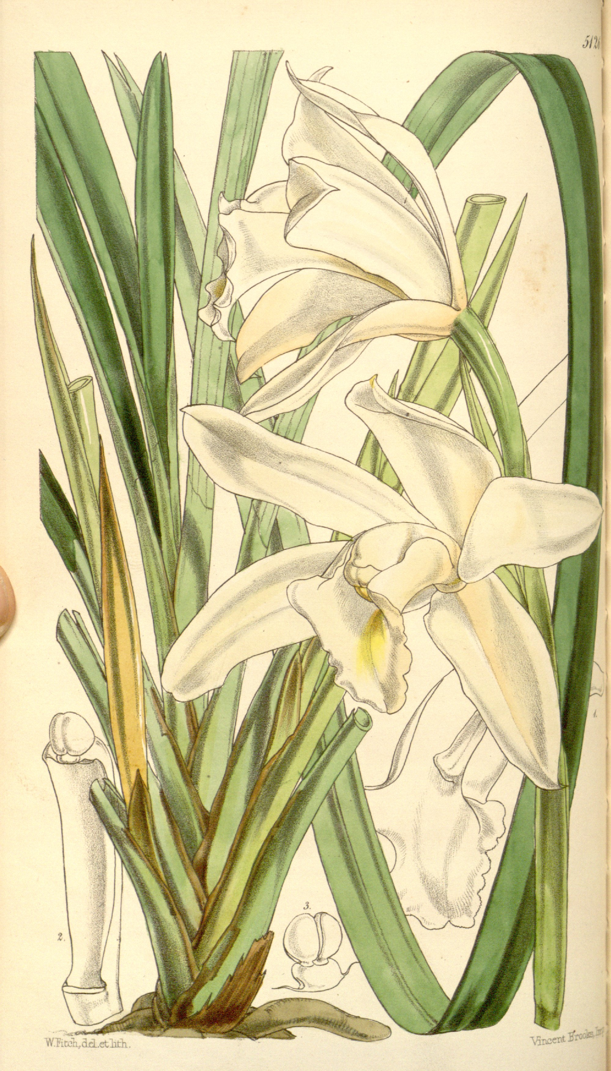 Illustration of Cymbidium eburneum